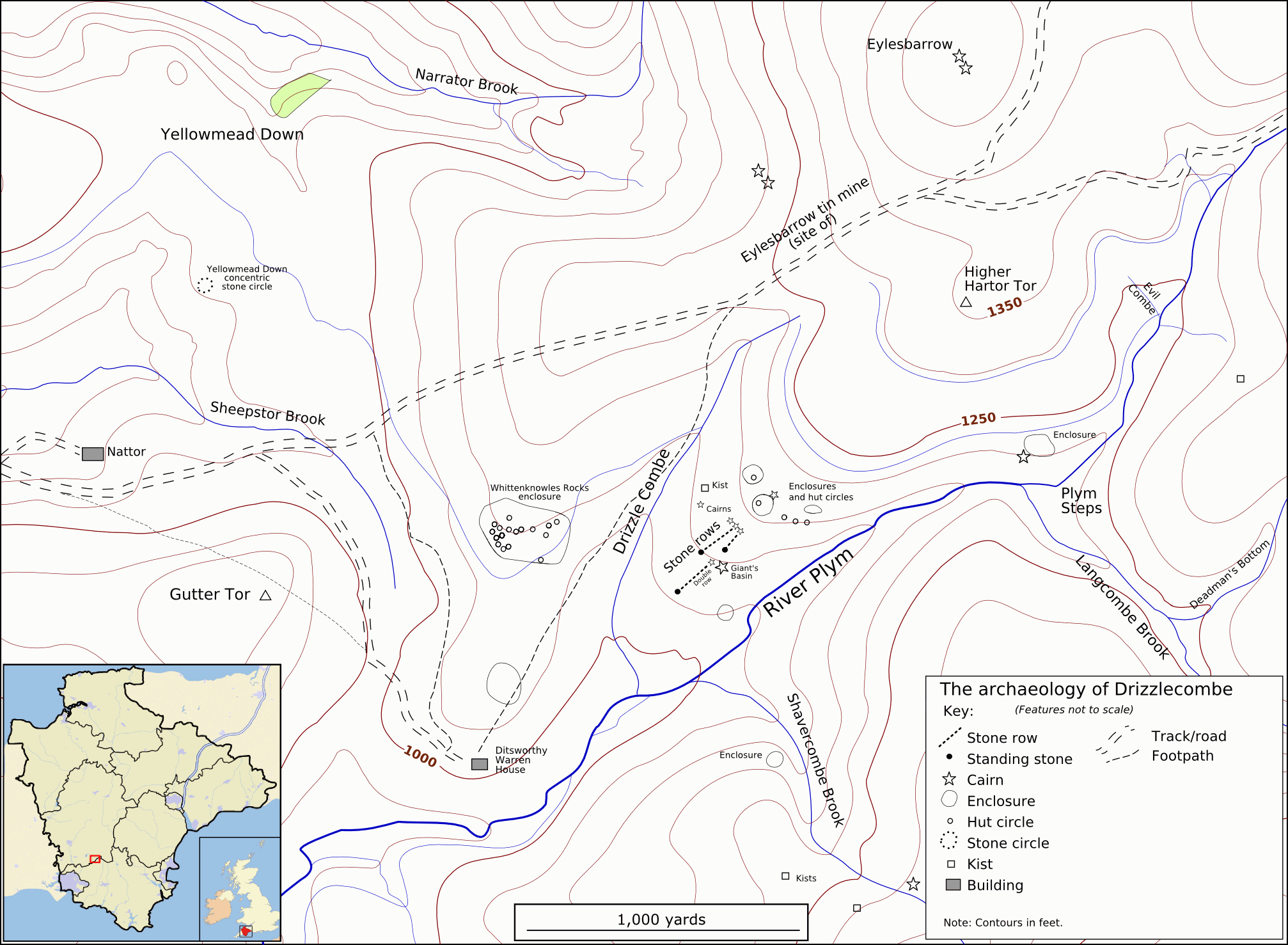 A map of the Drizzlecombe area of Dartmoor, Devon, England, showing some of the archaeological remains.